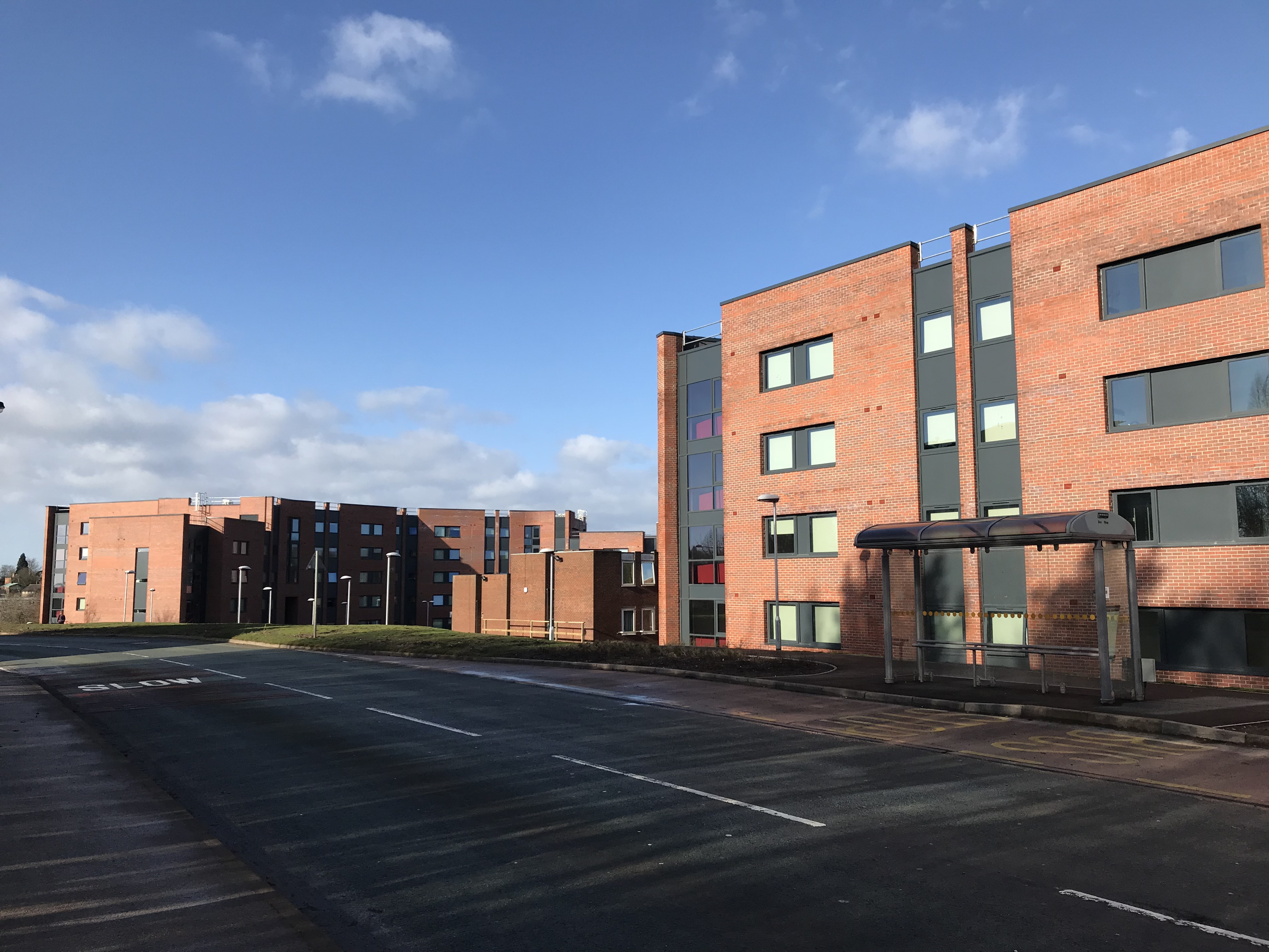 Barnes Development, Keele University